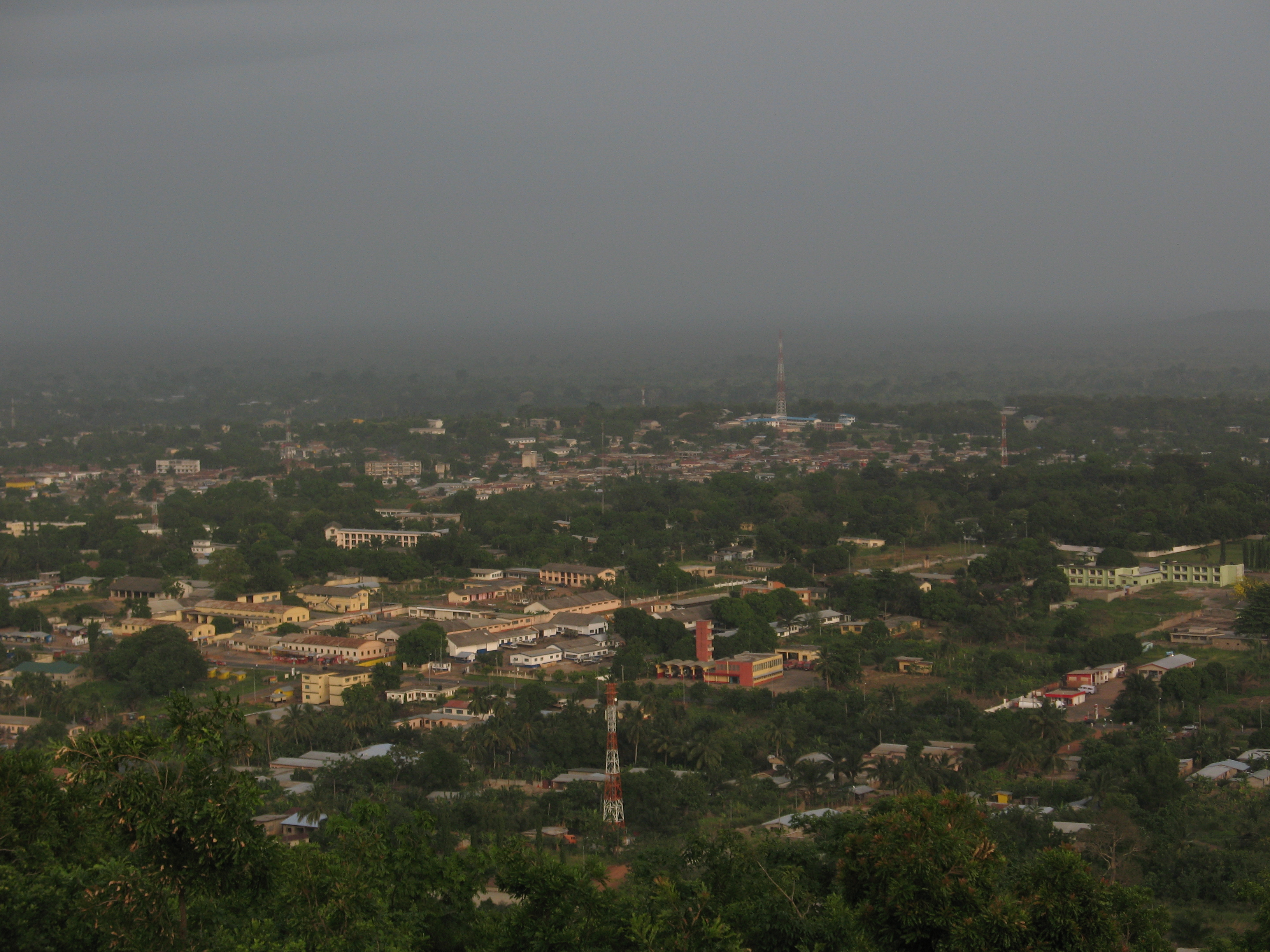 This picture is a view of of Ho in Volta Region, Ghana. It was taken from the hills overlooking the city from the North during a day when dusty Harmattan wind was blurring the view.